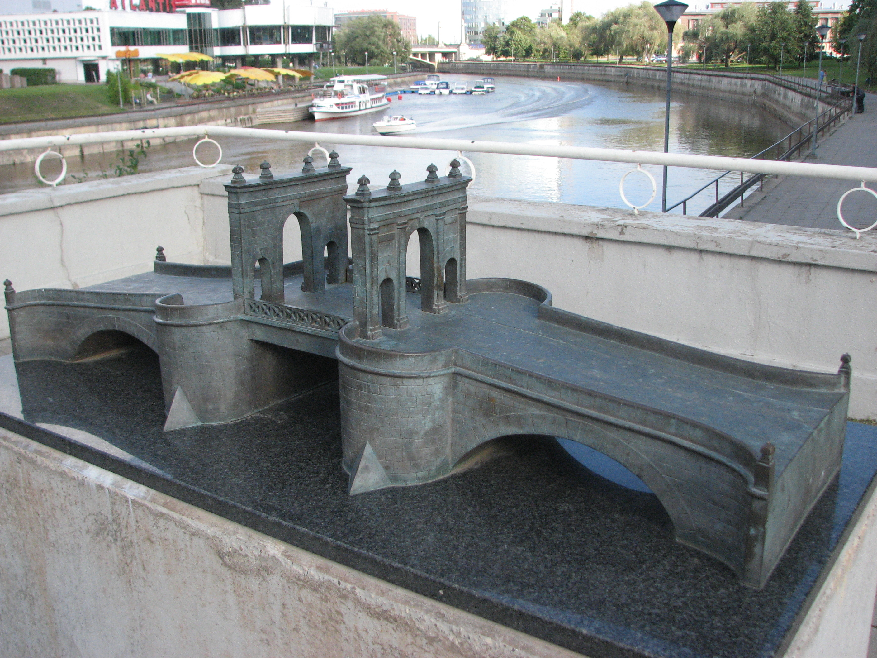 Model of Kivisild (Stone Bridge) near Kaarsild (Arch Bridege) in Tartu, Estonia